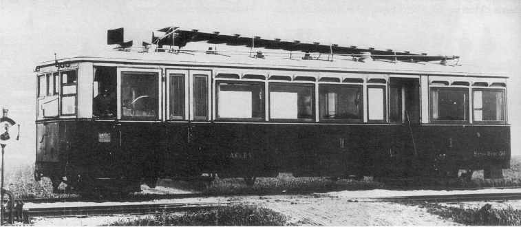 Railcar n°. 56 of ACsEV (United Arad and Csanád Railway Comapny) in Hungary (since 1919 in Romania). One of the first petrol-electric railcars, which were built since 1903, serially since 1905/6, by Johann Weitzer Company (Arad). The internal combustion engine came from De Dion-Bouton, the electric equipment from Siemens-Schuckert